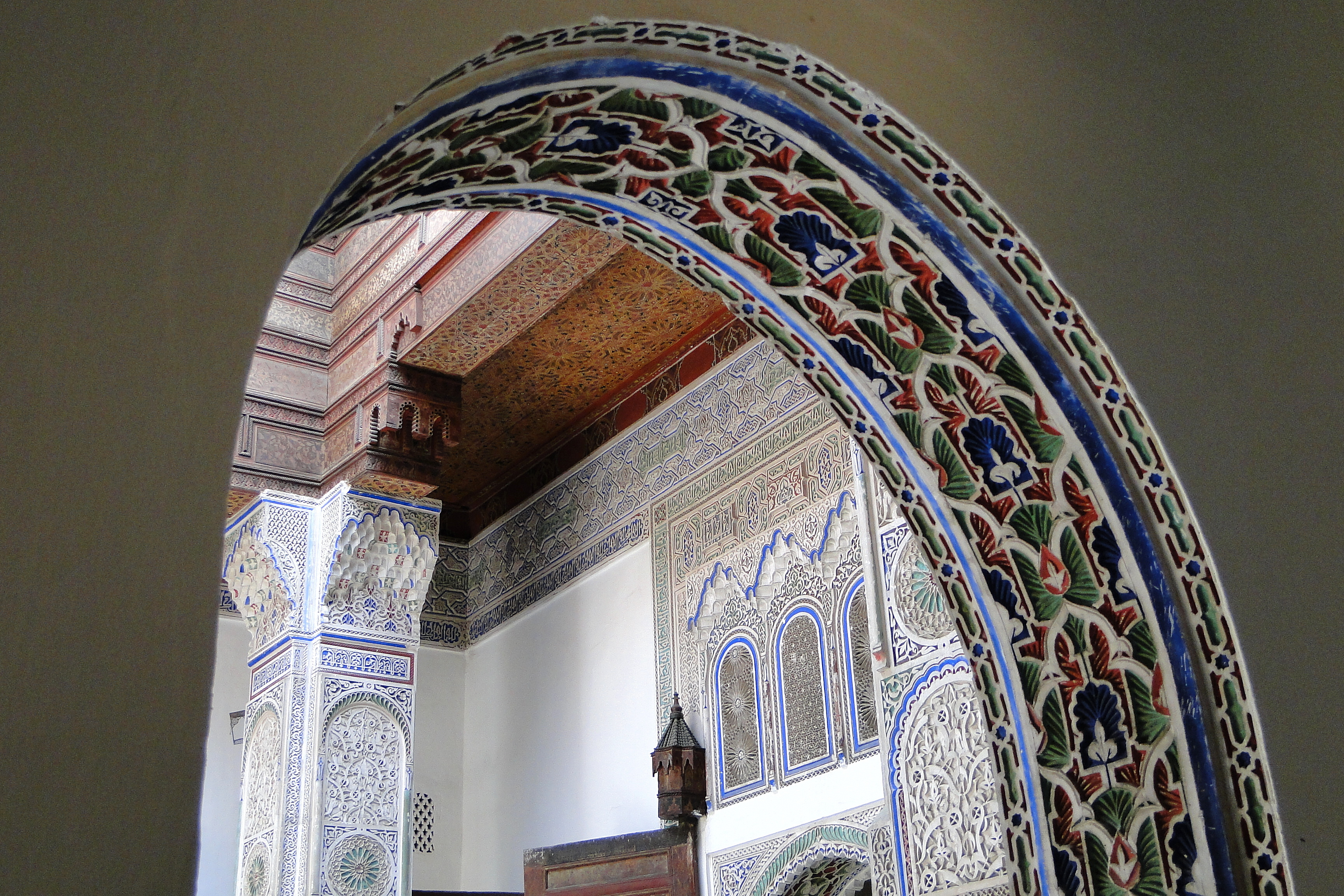 Detail of Dar Jamai Museum - Medina (Old City) - Meknes - Morocco - 01